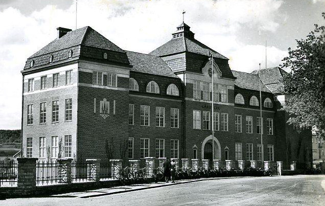 Main Grammars School building, brunt down in 1975